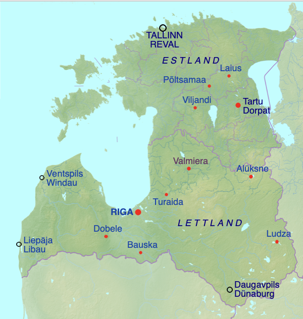 Distribution of Brick Gothic buildings in Estonia & Latvia